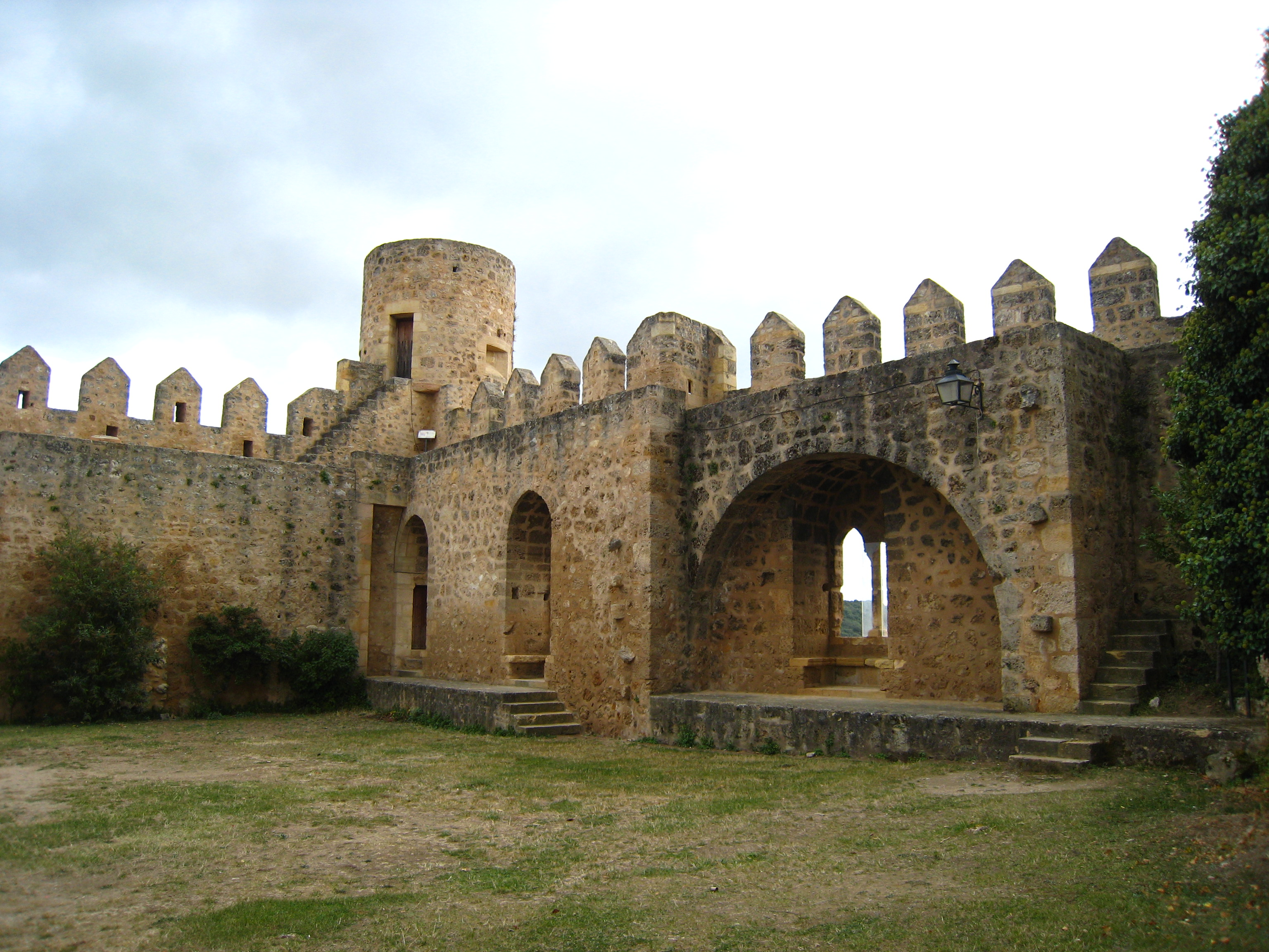 Google Maps - Google Earth